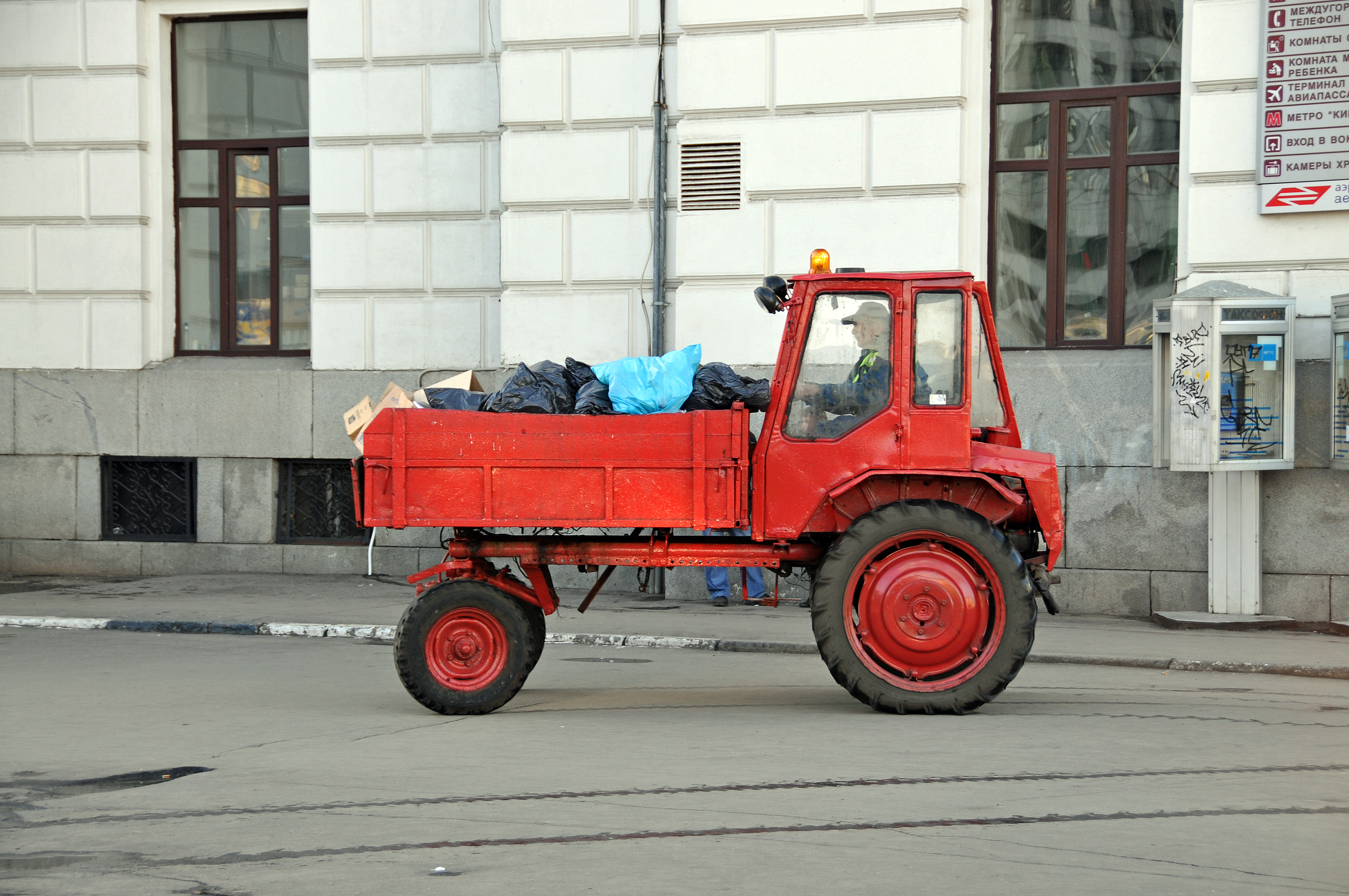 Implement carrier tractor in Moscow.